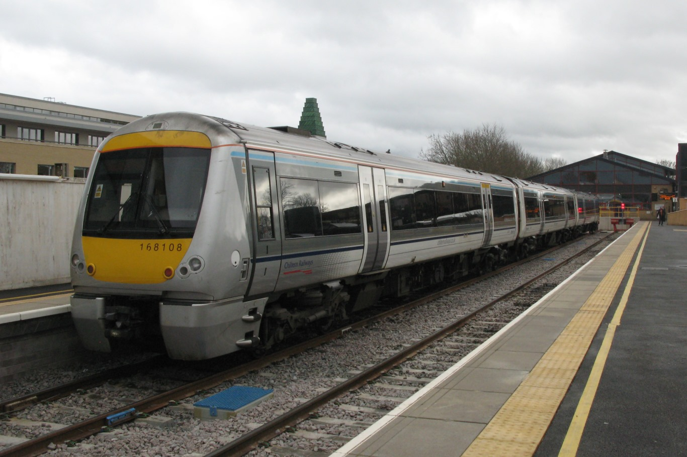 168108 stands in the bay platform at Oxford with a Chiltern Railways service to London Marylebone.